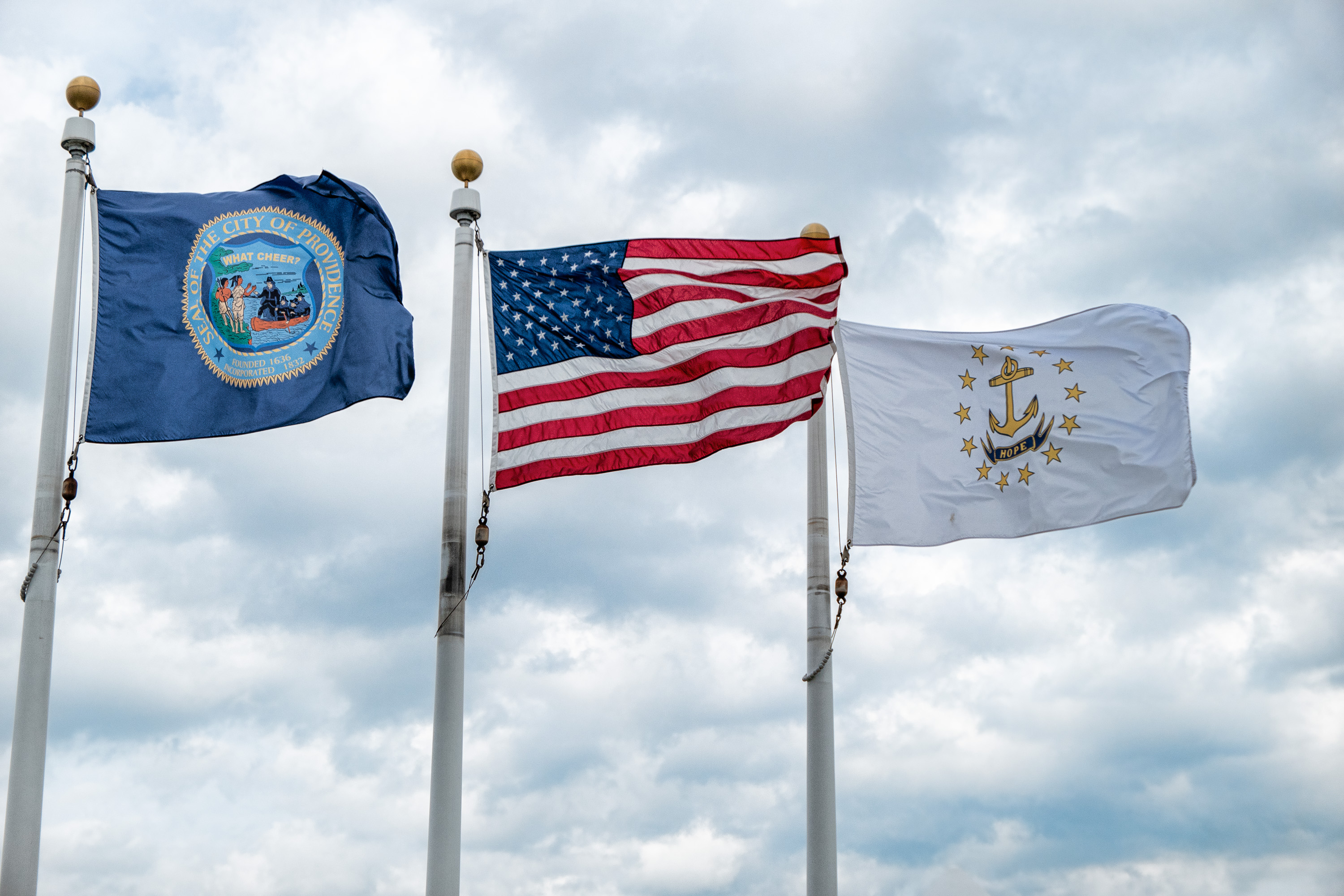 Three flags fly in India Point Park, Providence Rhode Island: the City of Providence, the United States, and Rhode Island.